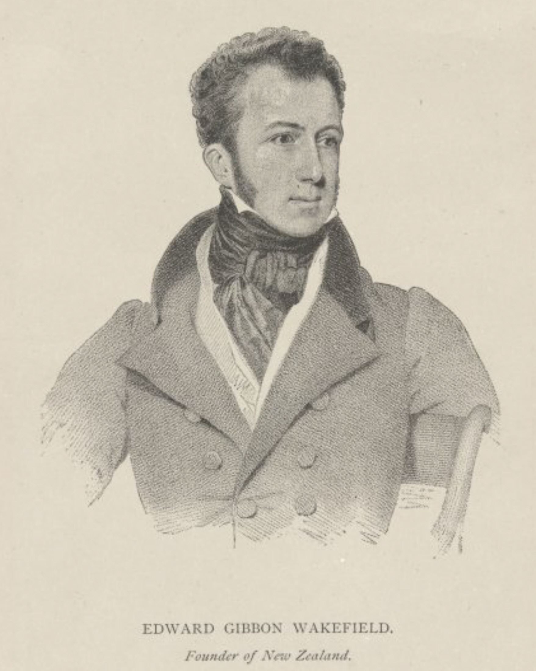 Edward Gibbon Wakefield (* 1796; † 1862), British statesman and promoter of colonization of Australia and New Zealand